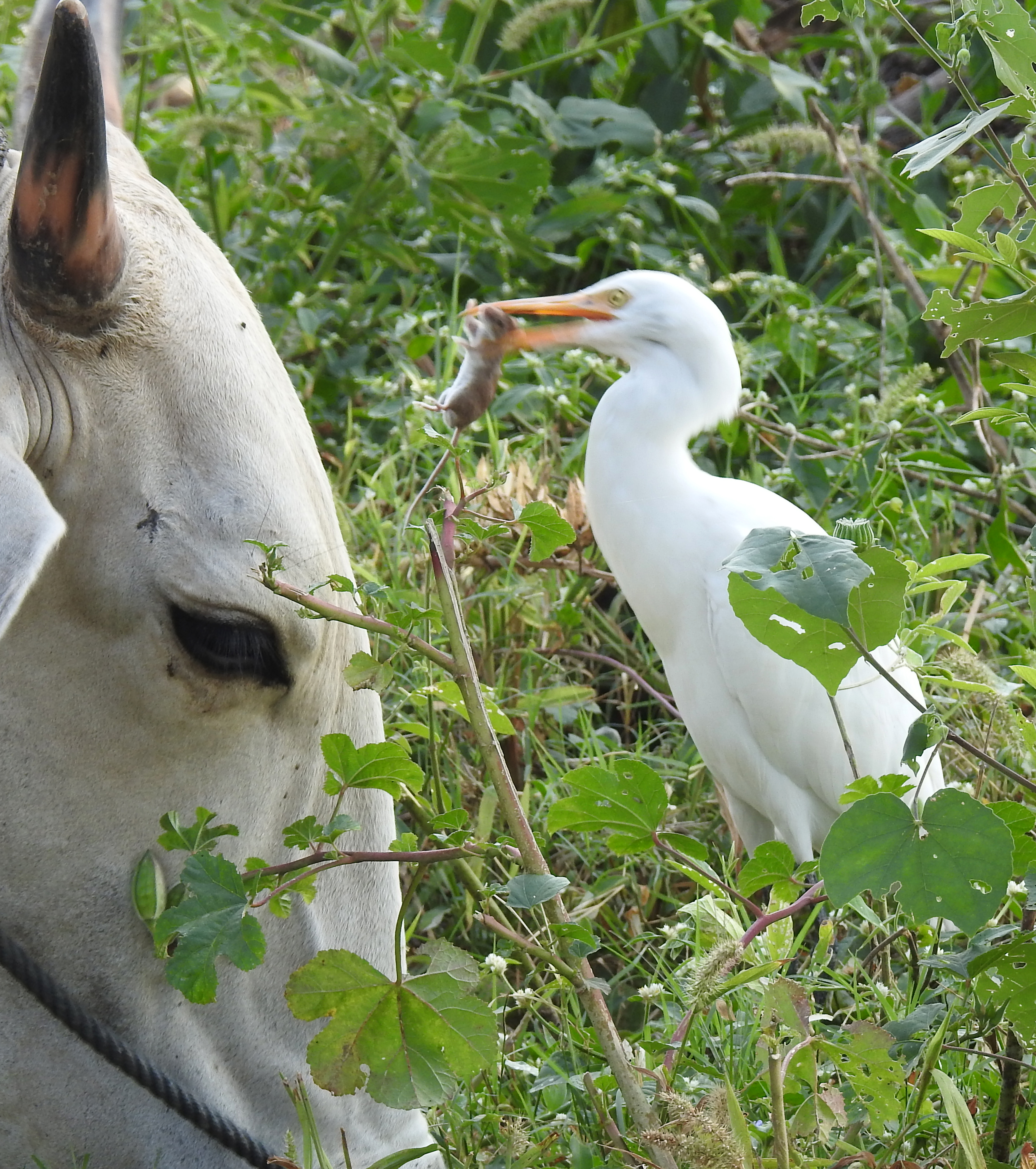 Cattle Egret Bubulcus ibis feeding on mouse in agriculture or cropland. Photographed in Yavatmal district, Maharashtra, India.